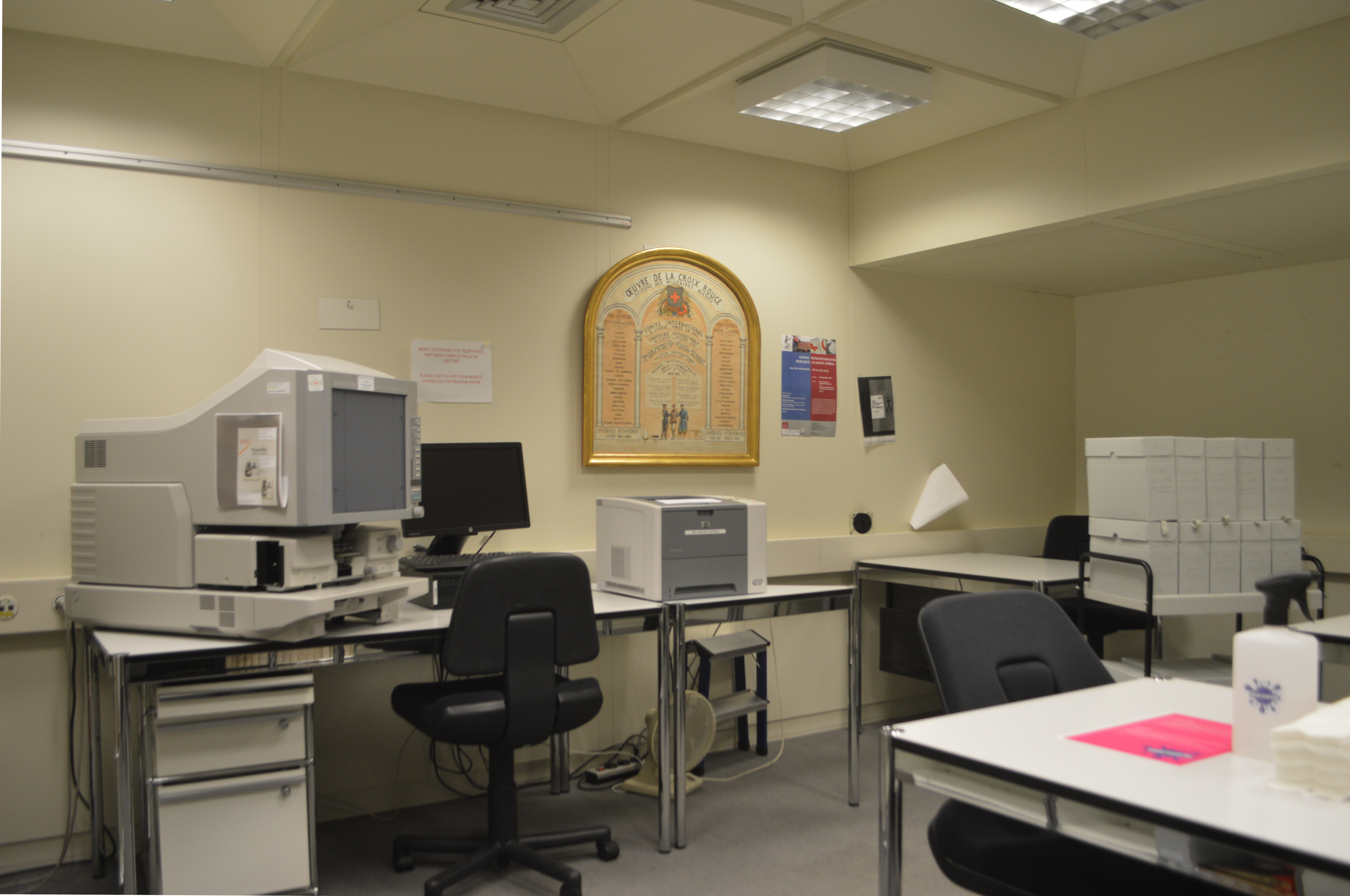 The reading room of the public archives at the International Committee of the Red Cross (ICRC) Headquarters in Geneva, Switzerland. Photo taken and uploaded in the context of the International Archives Week 2020 of Wikimedia Switzerland, Austria and Germany and the Association of Swiss Archivists.